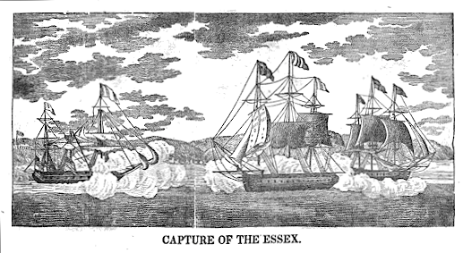 Engraving by Abel Bowen, from "The Naval Monument."